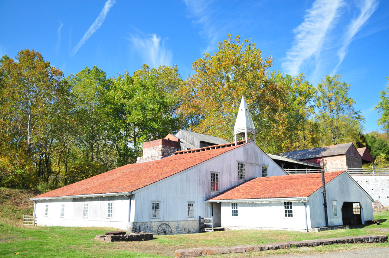 Hopewell Furnace building and grounds.